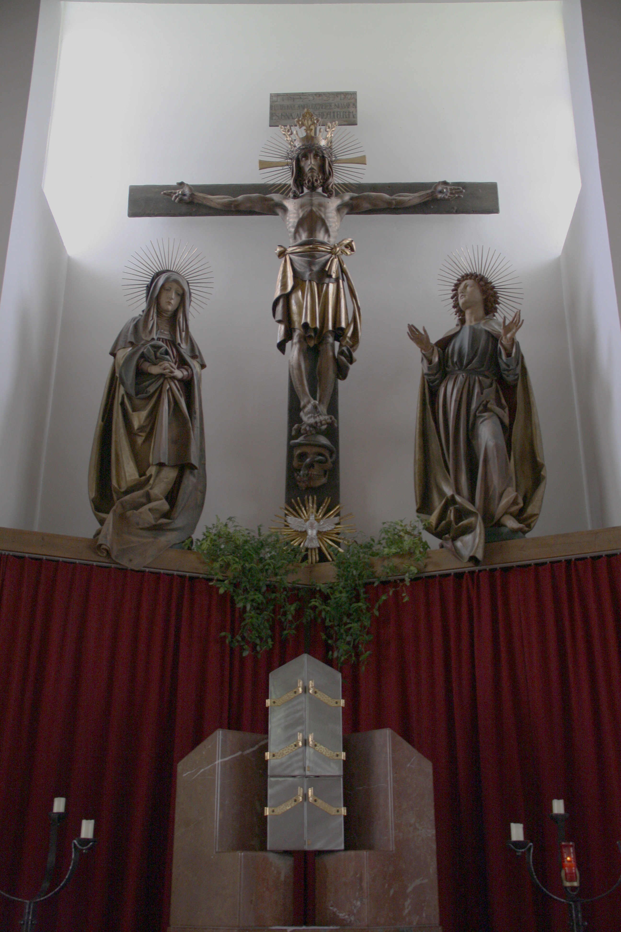 Austria, Tyrol (state), Navis, Hl. Christoph. The “Crucifixion” was carved in wood by Josef Bachlechner in 1912.